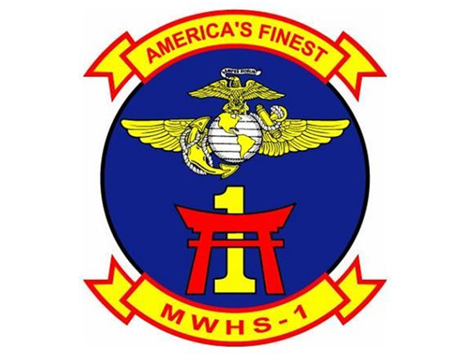 Squadron insignia for MWHS-1